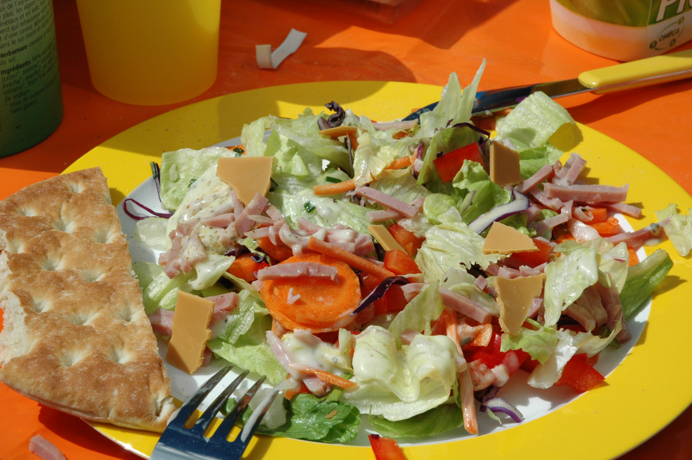 a salad with Norwegian cheese (geitost)